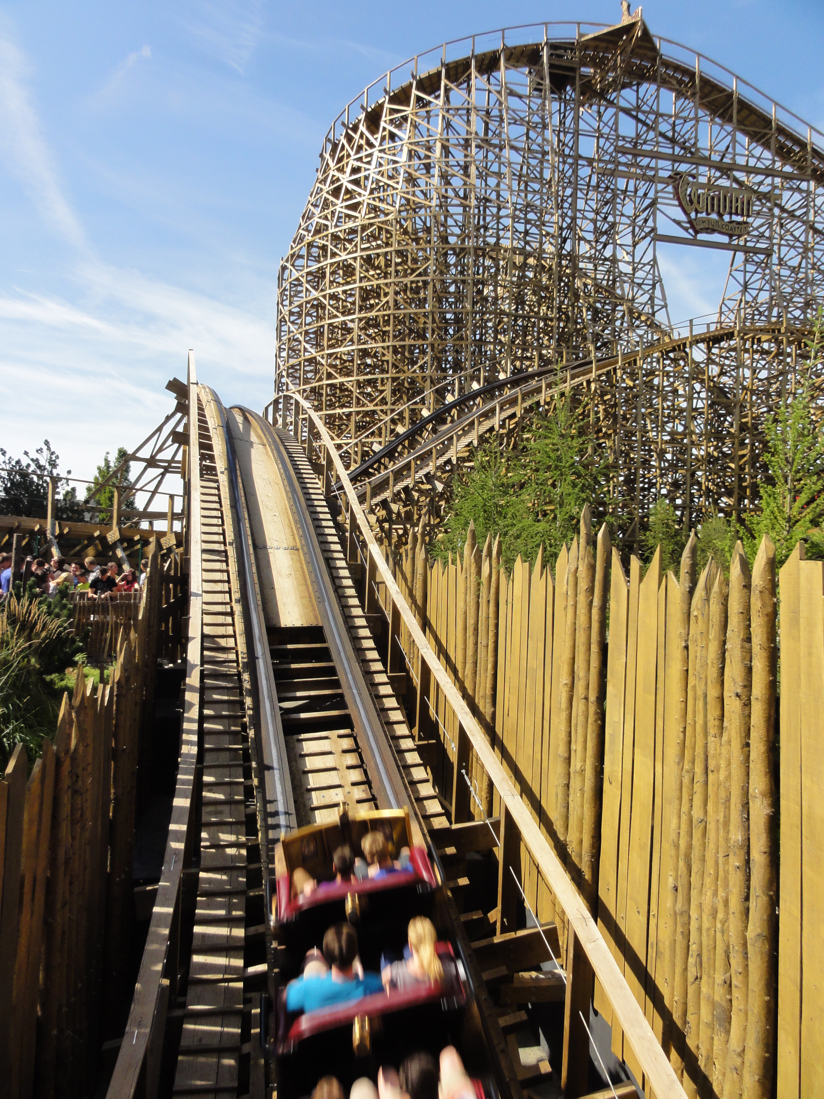 Wodan Timbur Coaster, Europa-Park, Rust, Baden-Württemberg, Germany.